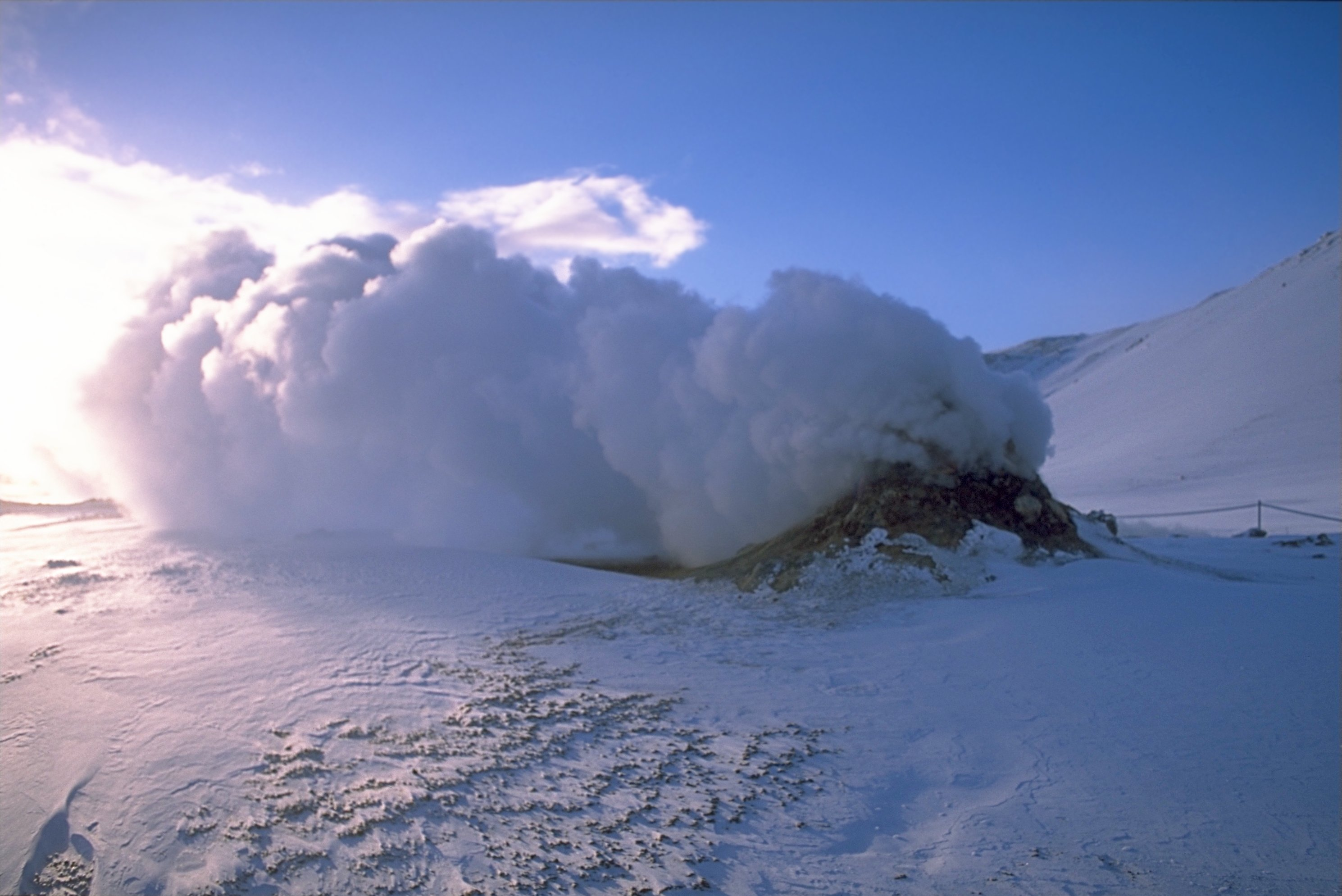 Hverarönd in Winter, Iceland Photo was taken using the following technique: Film: Fuji Velvia Lens: 2.8/28 Filter: None Body: Minolta Dynax 7 Support: Manfrotto 190B Image with Information in English Bild mit Informationen auf Deutsch